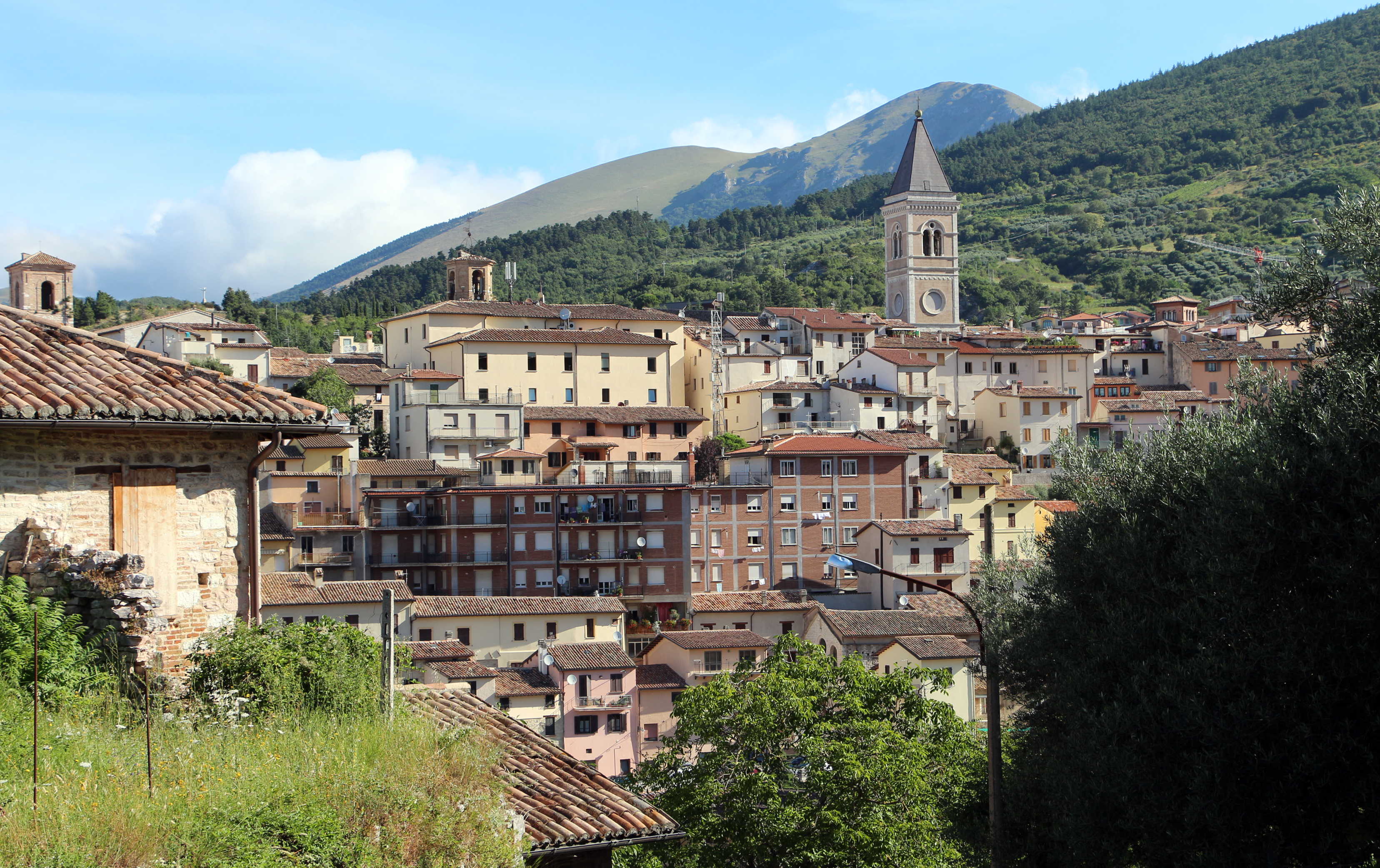 Gualdo Tadino